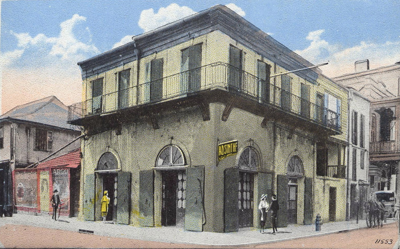 Old Absithe House, Bourbon Street, New Orleans, from old postcard